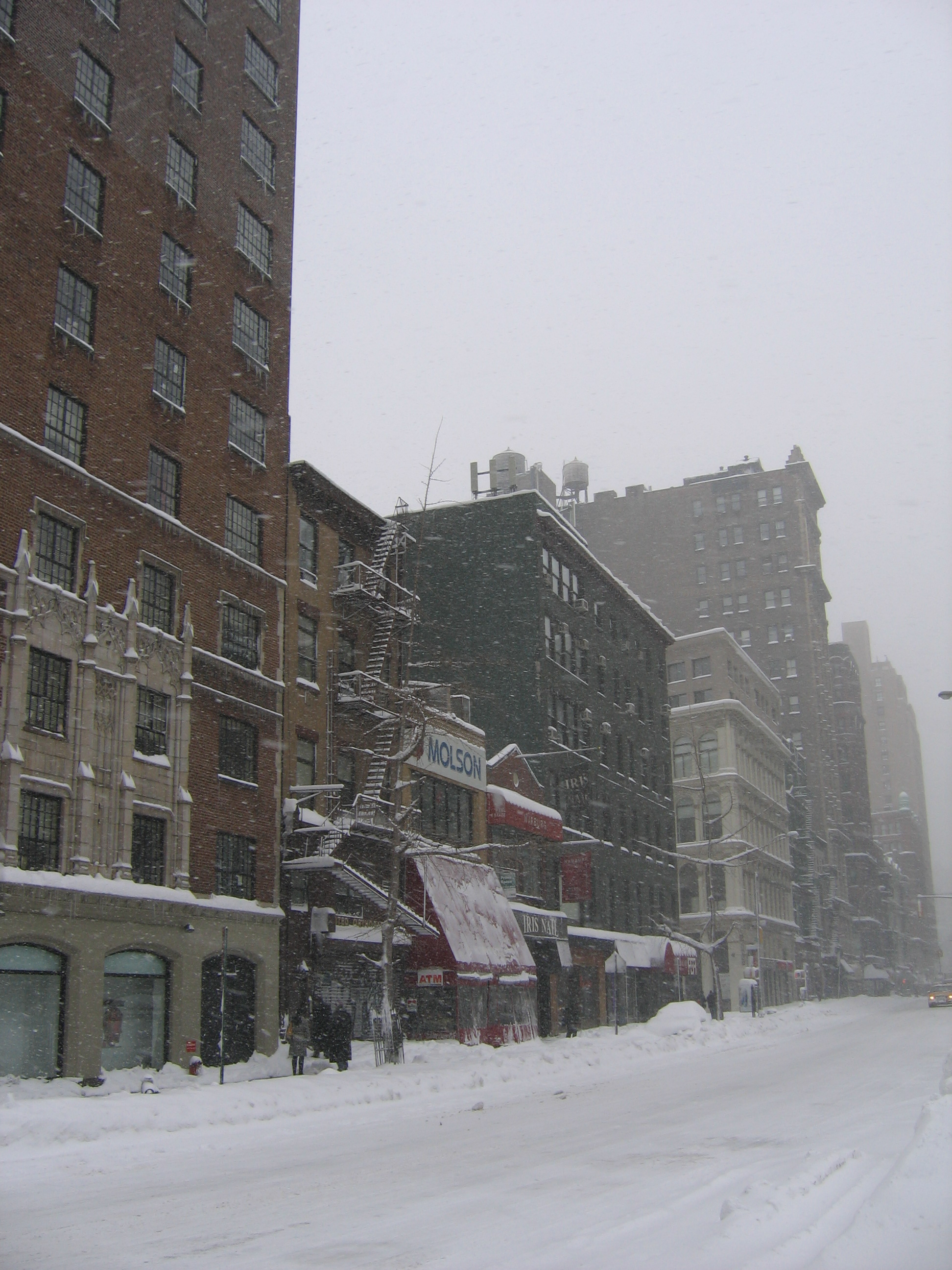 Broadway in East Village, New York City during 2006 blizzard.